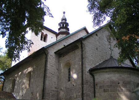 Romanesque church